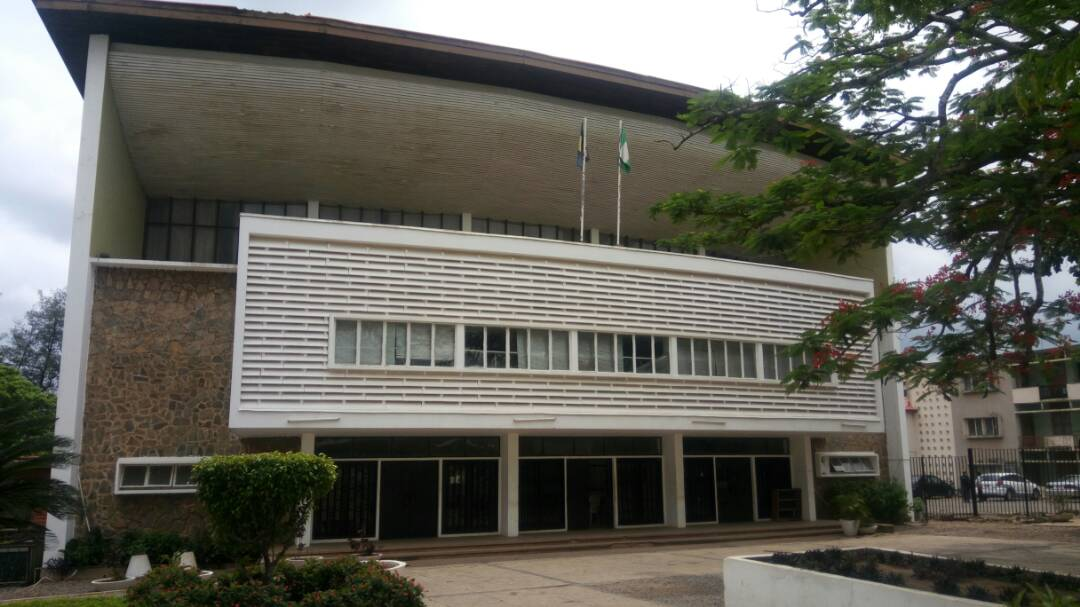 Trenchard Hall, University of Ibadan, Nigeria